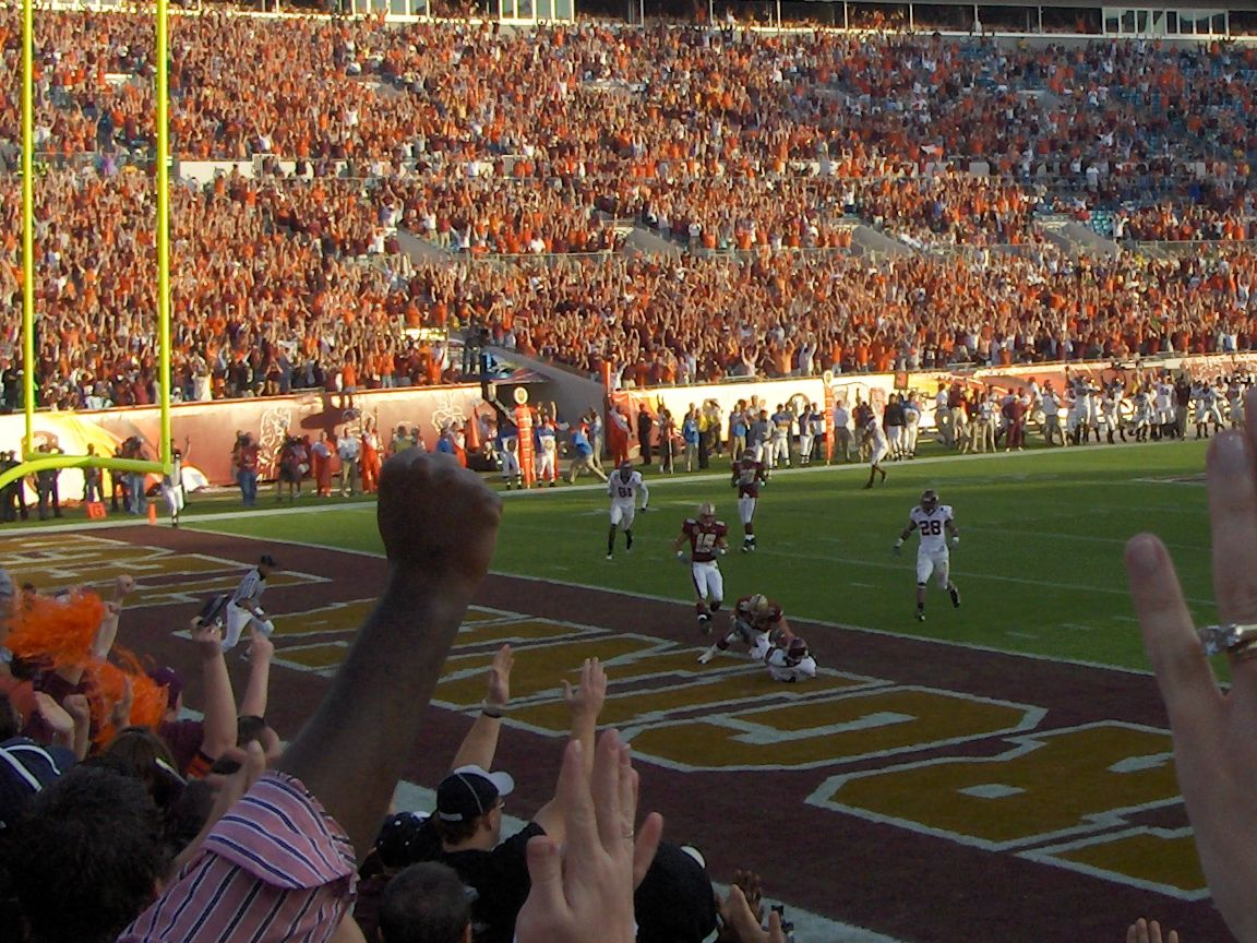 Virginia Tech wide receiver Eddie Royal catches the go-ahead touchdown in the end zone halfway through the fourth quarter.